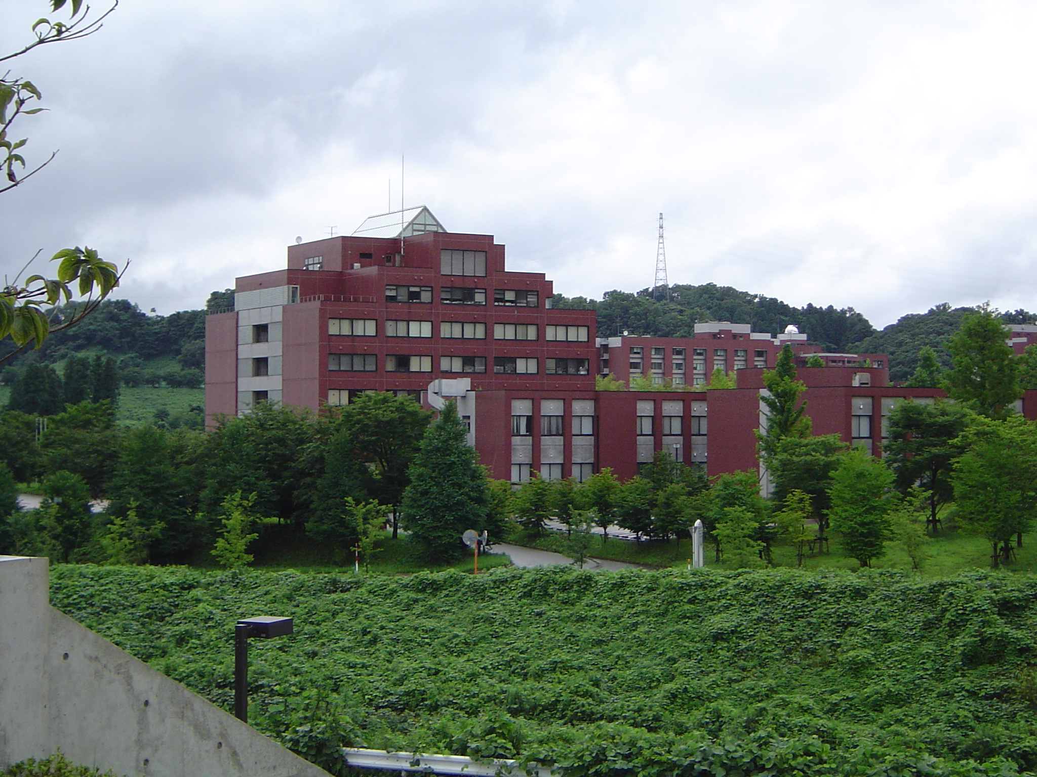 Kanazawa Univ. Kakuma Campus (Central)